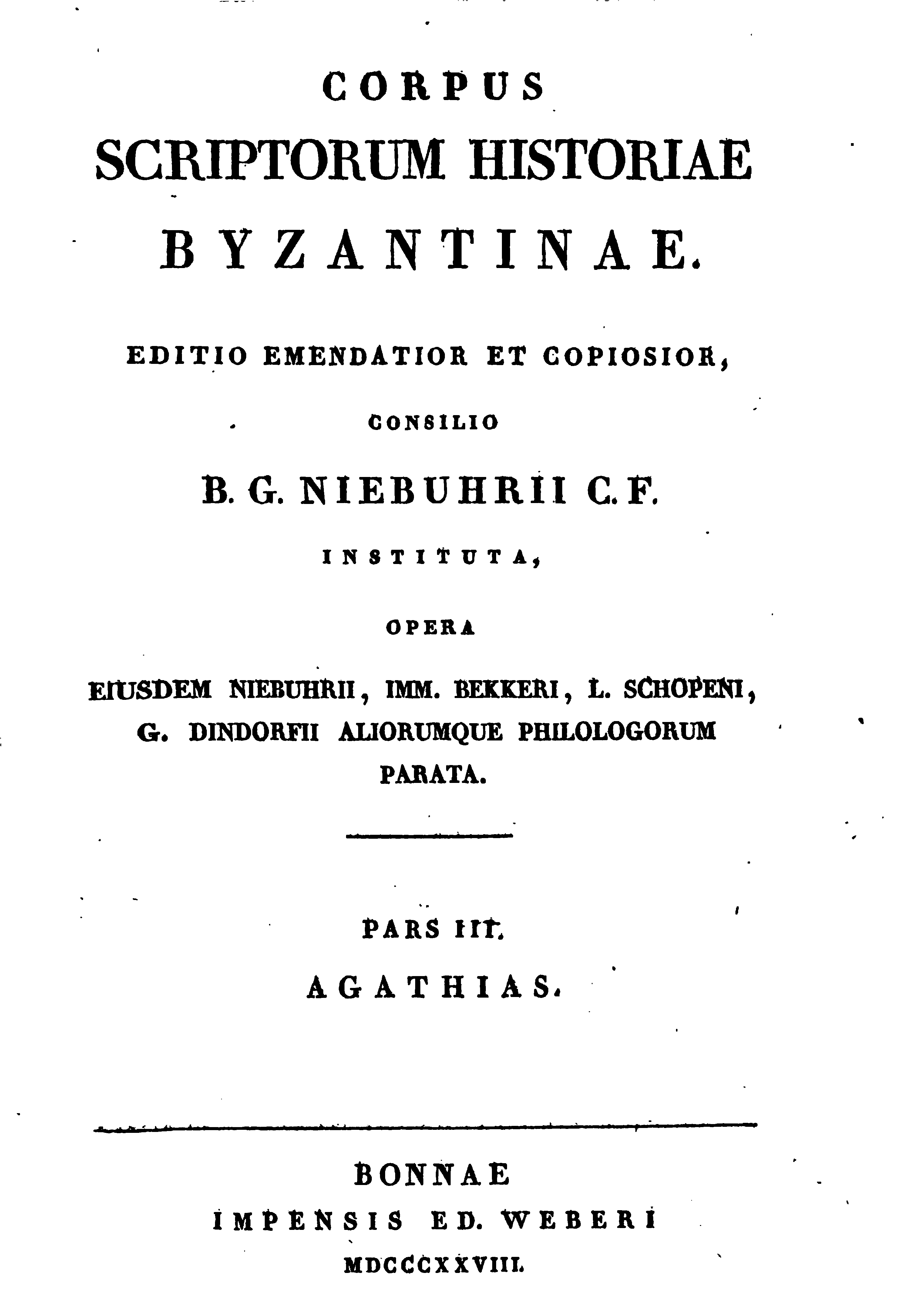 Frontispiece to the first volume of the Bonn edition of the Corpus Scriptorum Historiae Byzantinae - containing the "Histories" of Agathias (ed. B. G. Niebuhr).